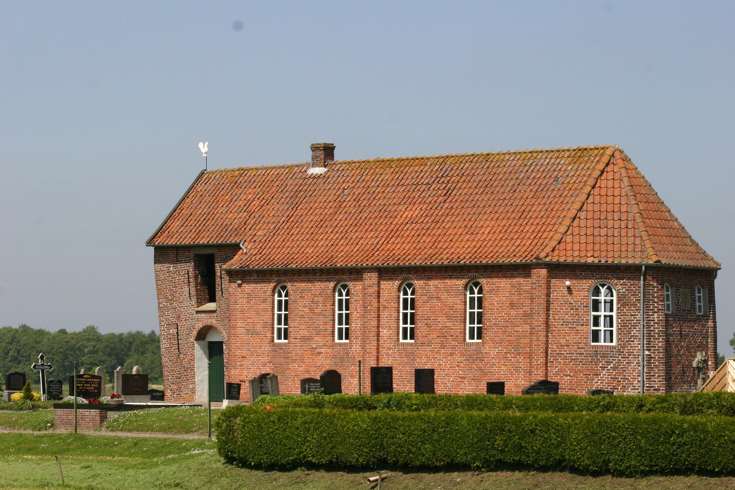 Historic church in St. Georgiwold, district of Leer, East Frisia, Germany